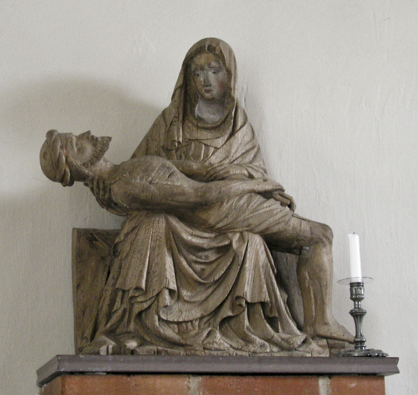 Herrestads kyrka/church, Diocese of Linköping, Sweden. Pietà group.